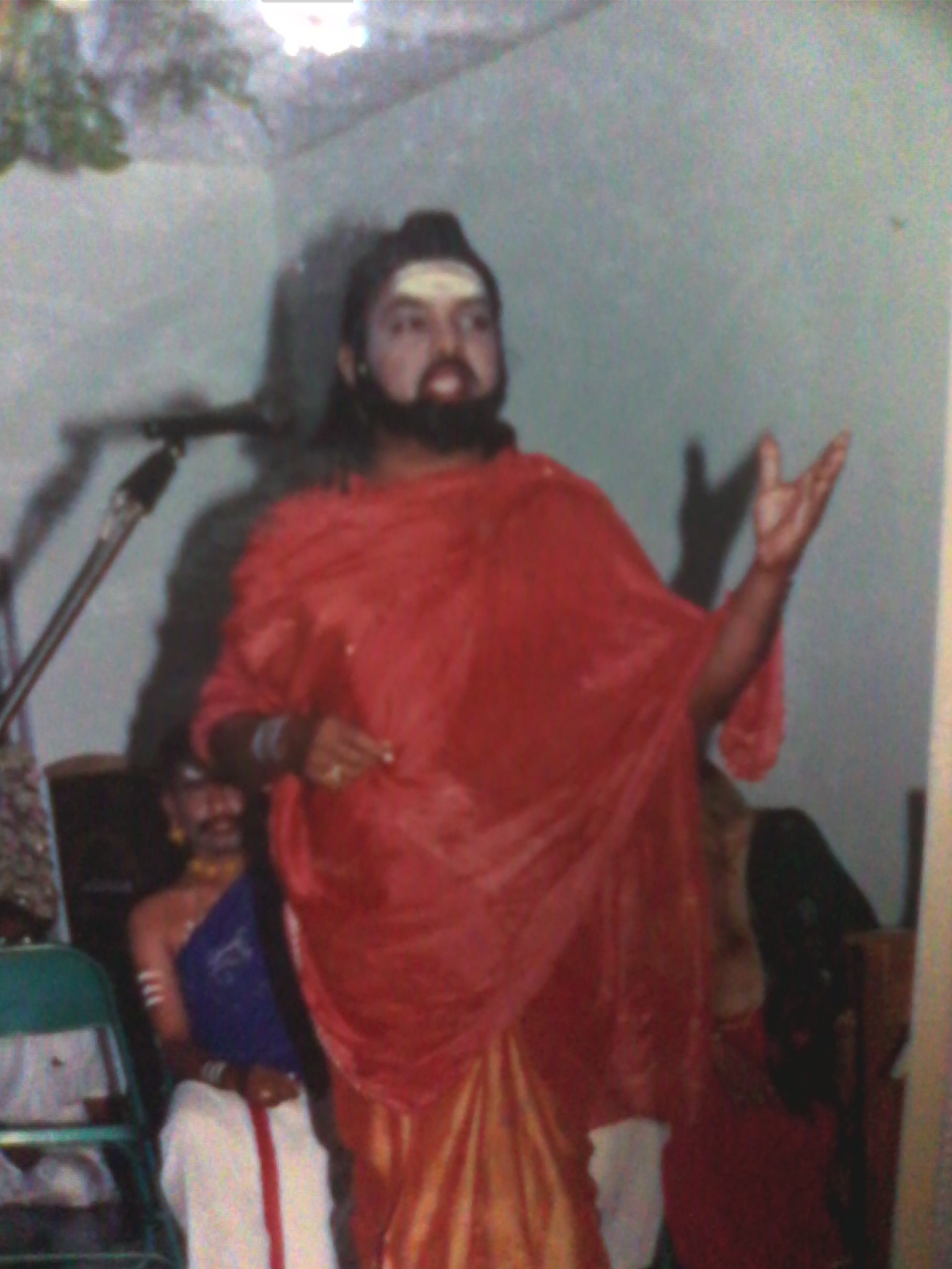 భర్తృహరి గా వి.వై.వి సోమయాజి నటించినప్పుడు తీసిన ఫోటో